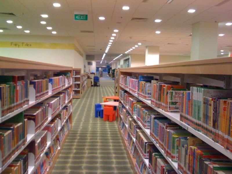 Choa Chu Kang Community Library, Singapore.